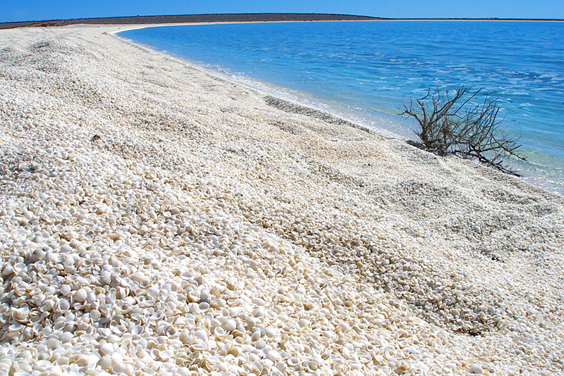 Shark Bay Marine Park, Western Australia, Shell Beach composed of the shells of the cockle species Fragum erugatum